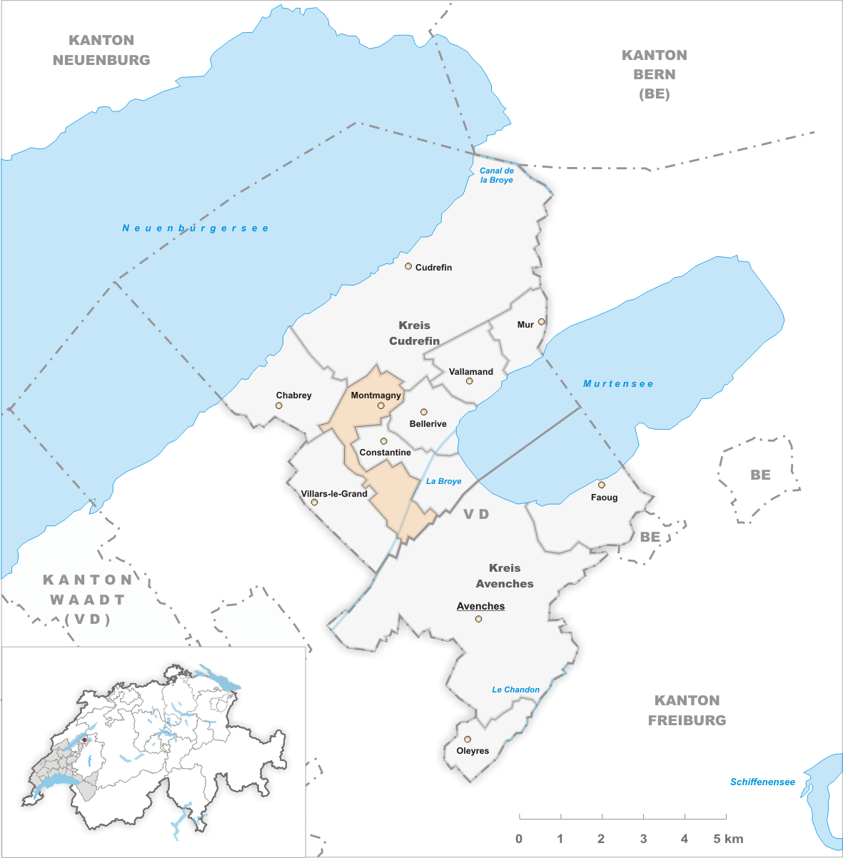 Municipality Montmagny